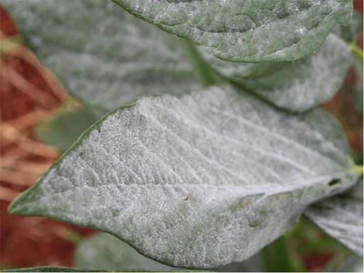 Host symptoms on Sesamum orientale (Sesame).